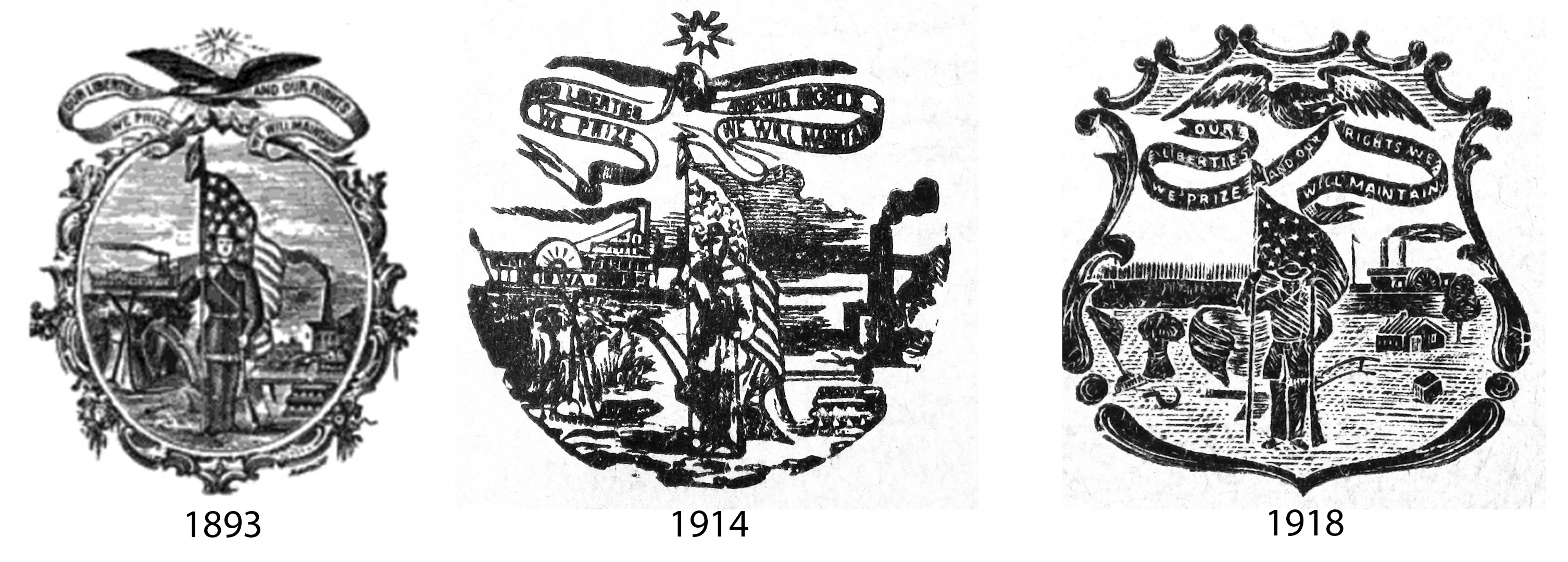 Changes in the Seal of Iowa depicted 1893-1918.